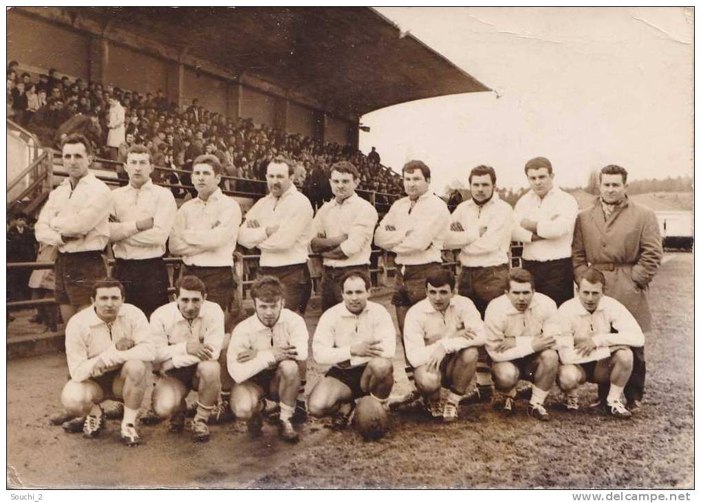 USFL Champion du Périgord-Agenais 1963